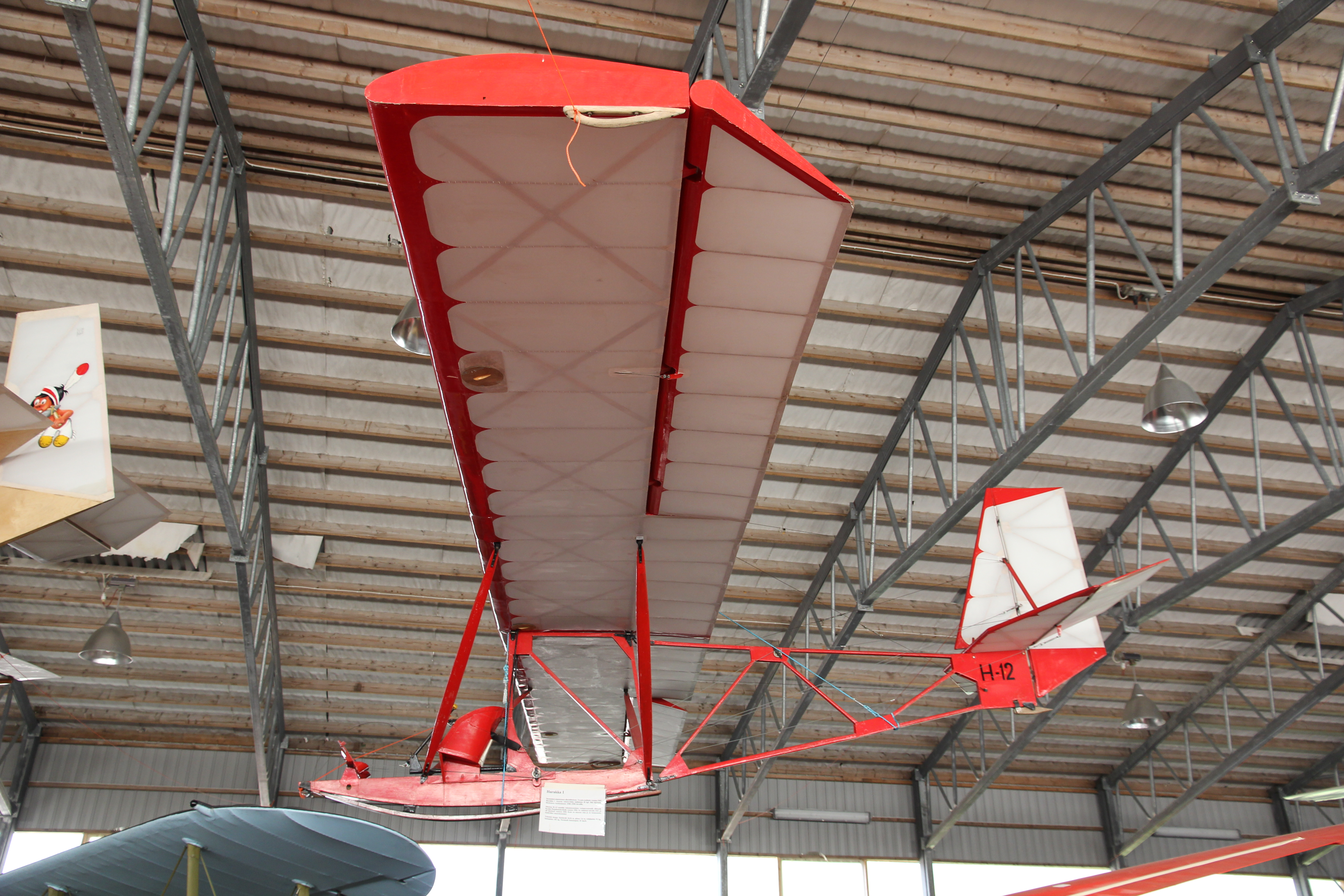 Harakka I H-12 primary glider from 1947 photographed in Karhulan ilmailukerho aviation museum.